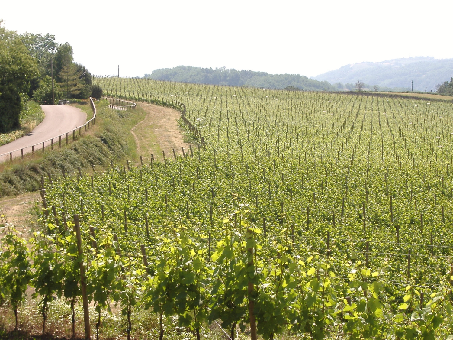 Vineyards in the Italian wine region of the Veneto